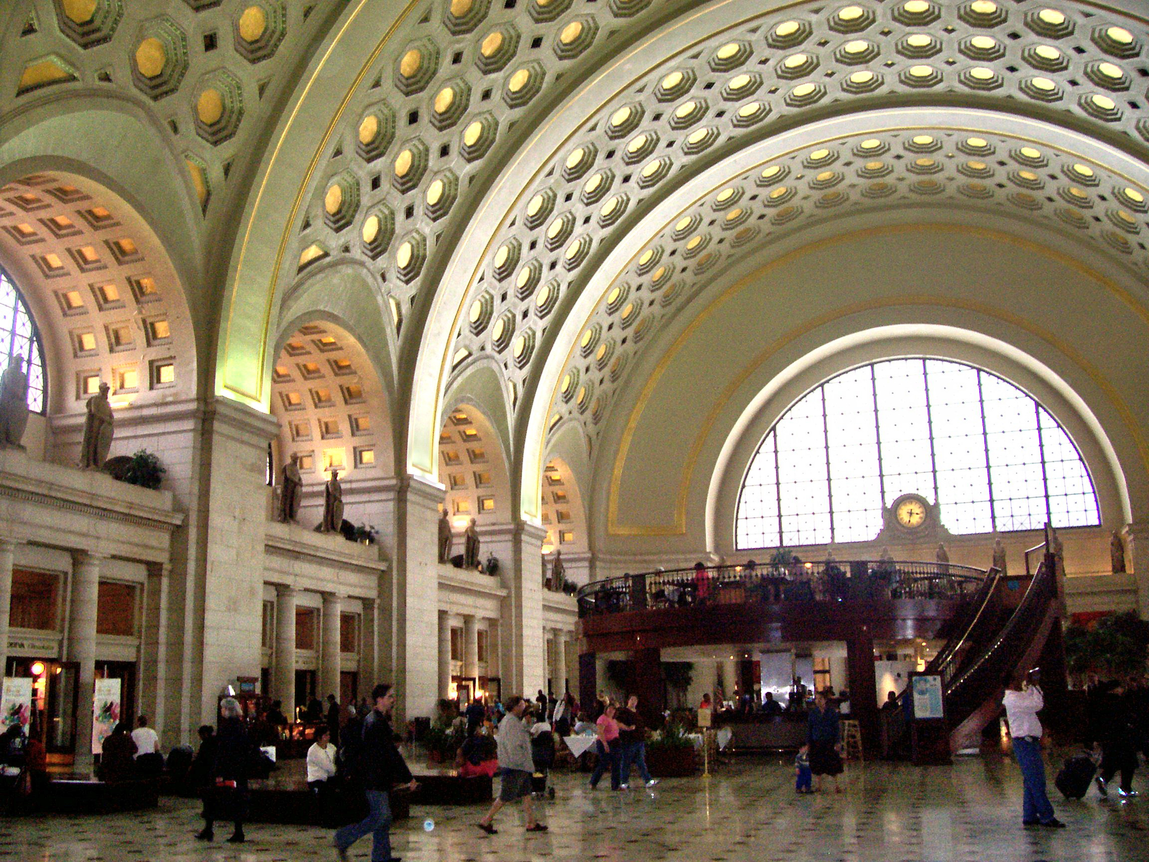 A photograph of the interior of Union Station in Washington, D.C.. (I took this picture).